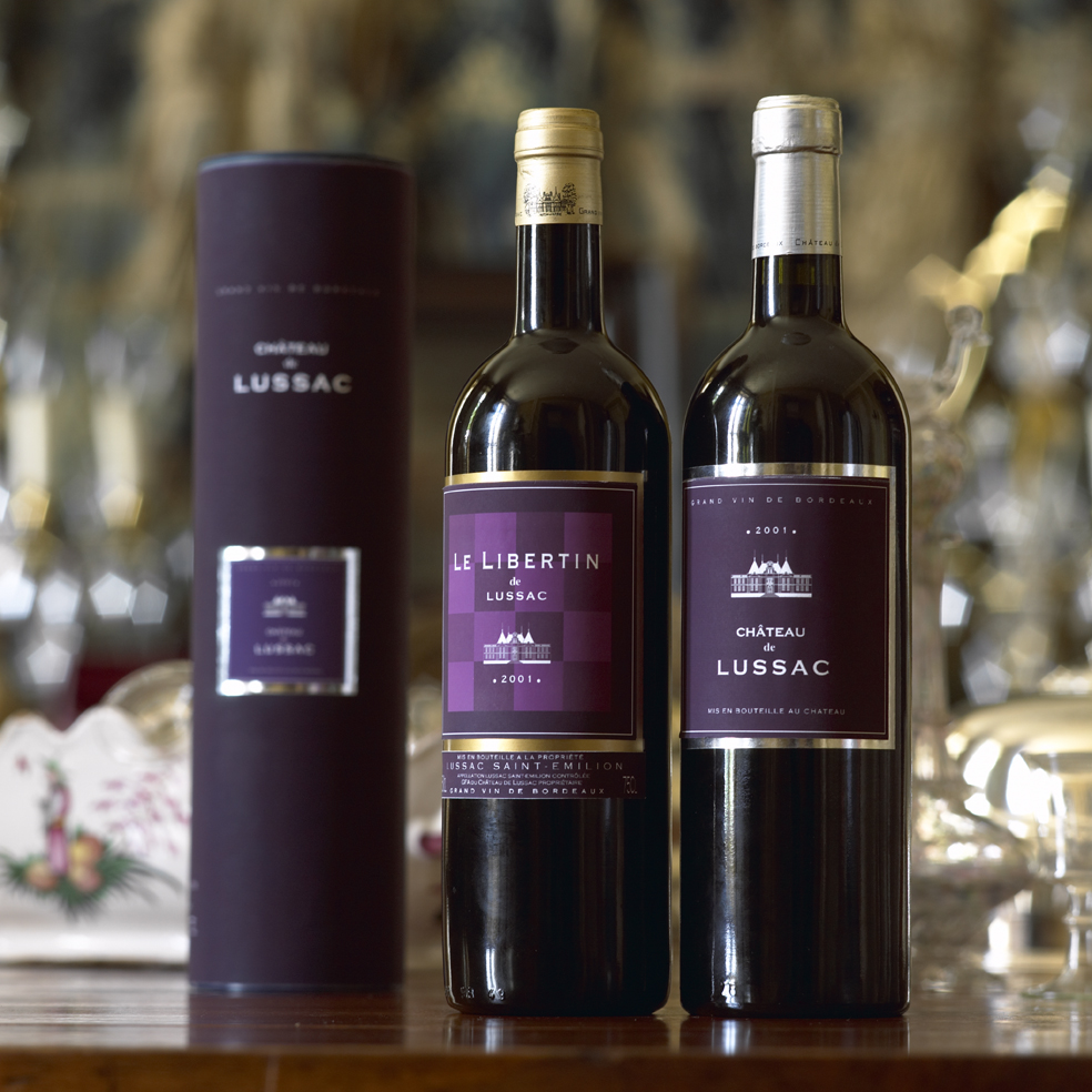 Château de Lussac - Wines